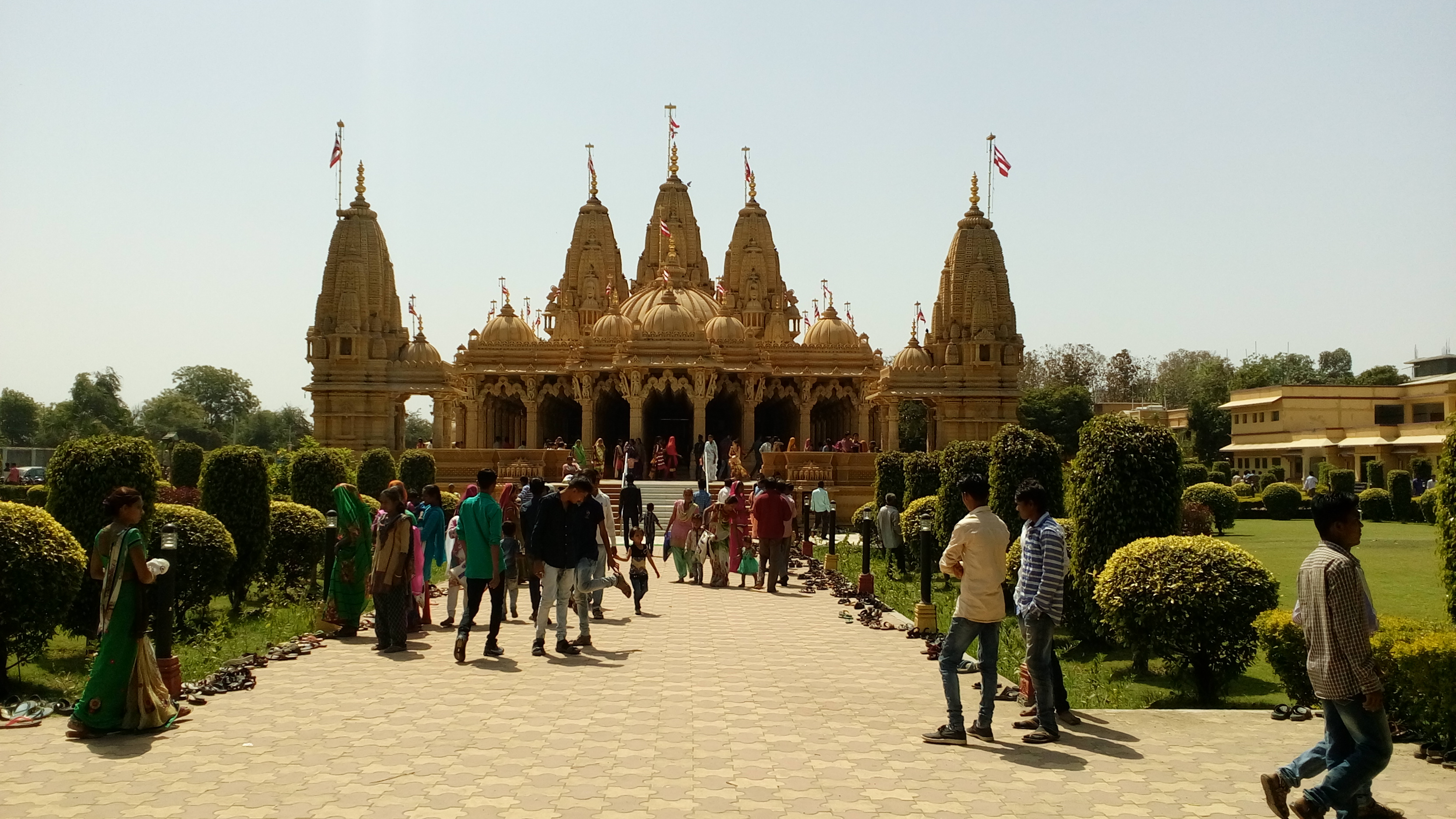 Baps tample